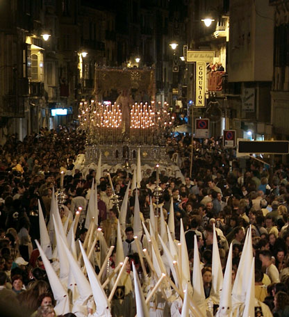 María Santísima del Rocío el Martes Santo de 2006